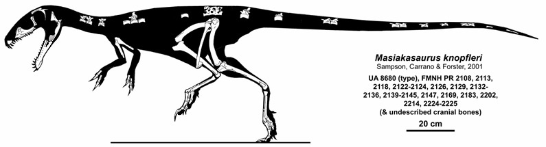 Skeletal reconstruction of Masiakasaurus knopfleri.